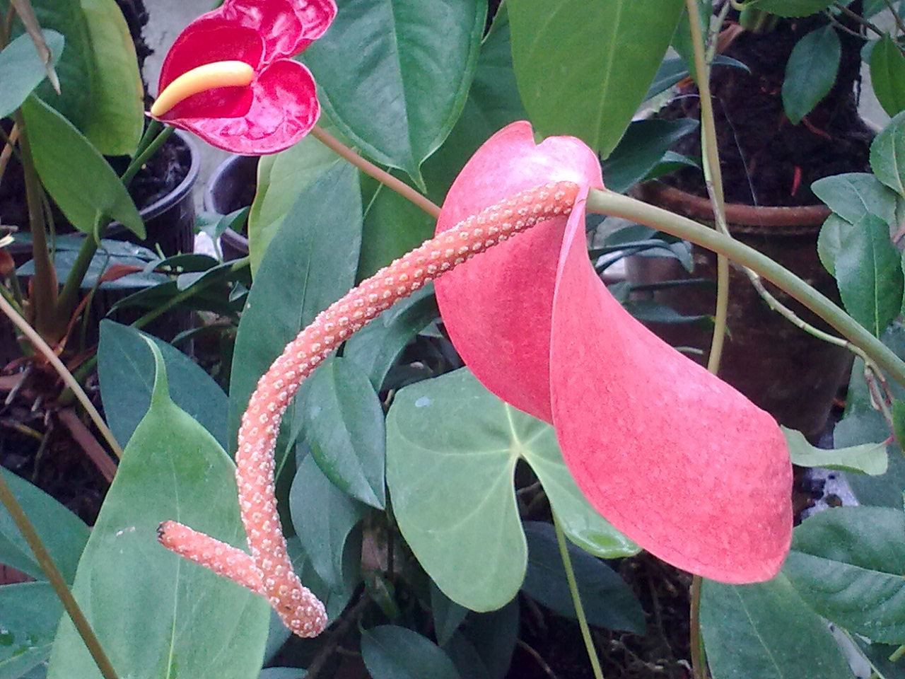 Anthurium scherzerianum flower